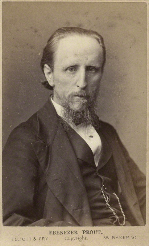 Photograph of Ebenezer Prout. Albumen carte-de-visite, 1860s 3 3/4 in. x 2 3/8 in. (95 mm x 61 mm) image size.